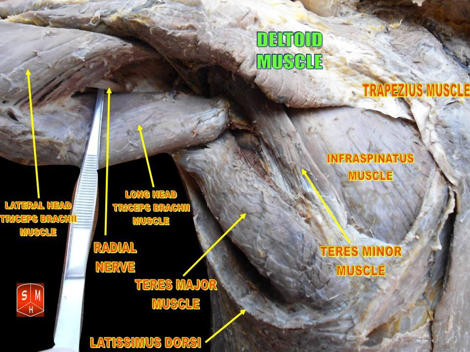 Anatomical dissections